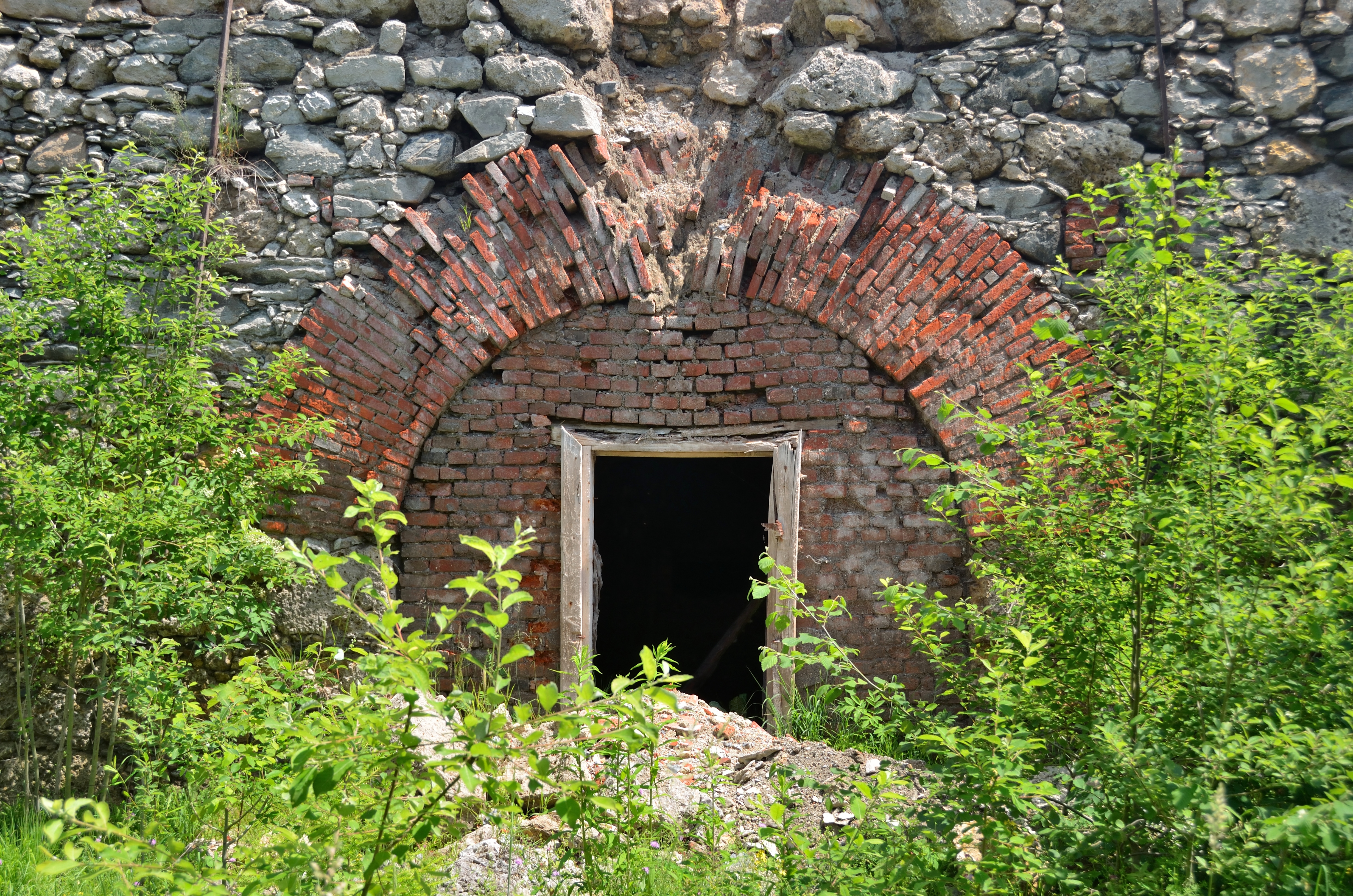 Former blast furnace "Alfred-Hütte" in Spital am Semmering, Styria, protected as a cultural heritage monument.